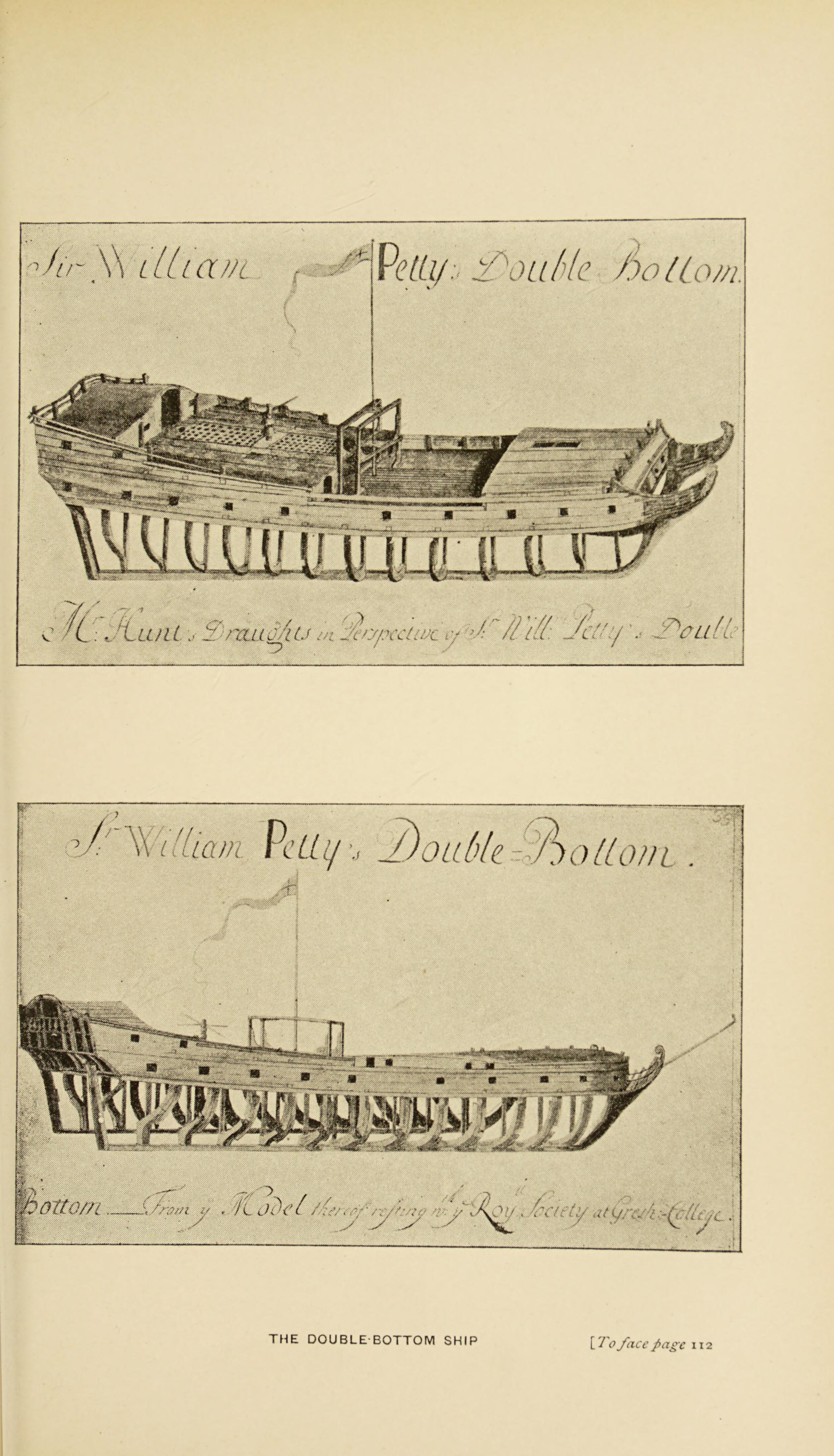 Page 112a of The Life of Sir William Petty 1623-1687 by Lord Edmond Fitzmaurice (1895).